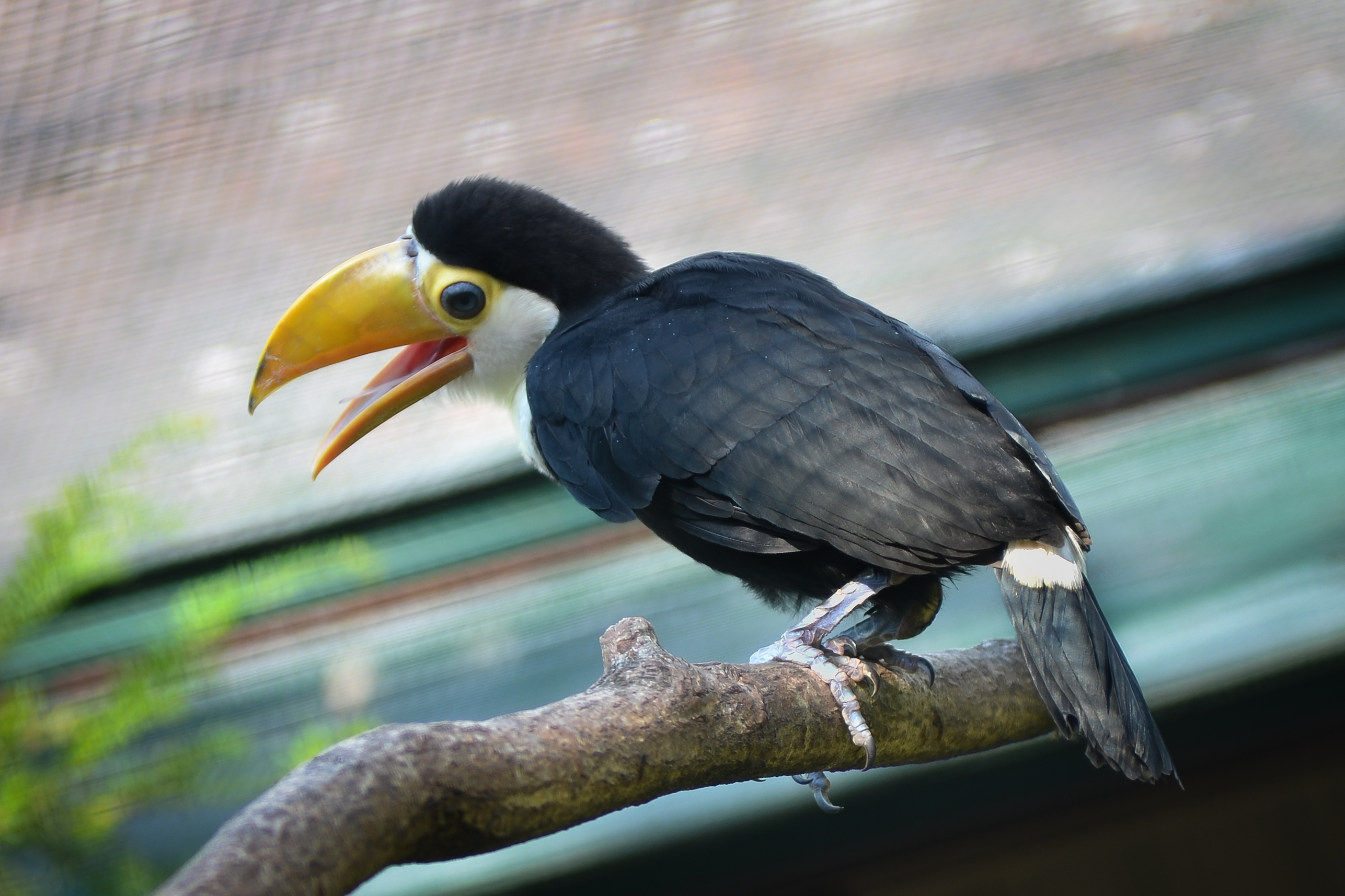 Young Toco Toucan (Ramphastos toco) at Weltvogelpark Walsrode (Walsrode Bird Park, Germany)